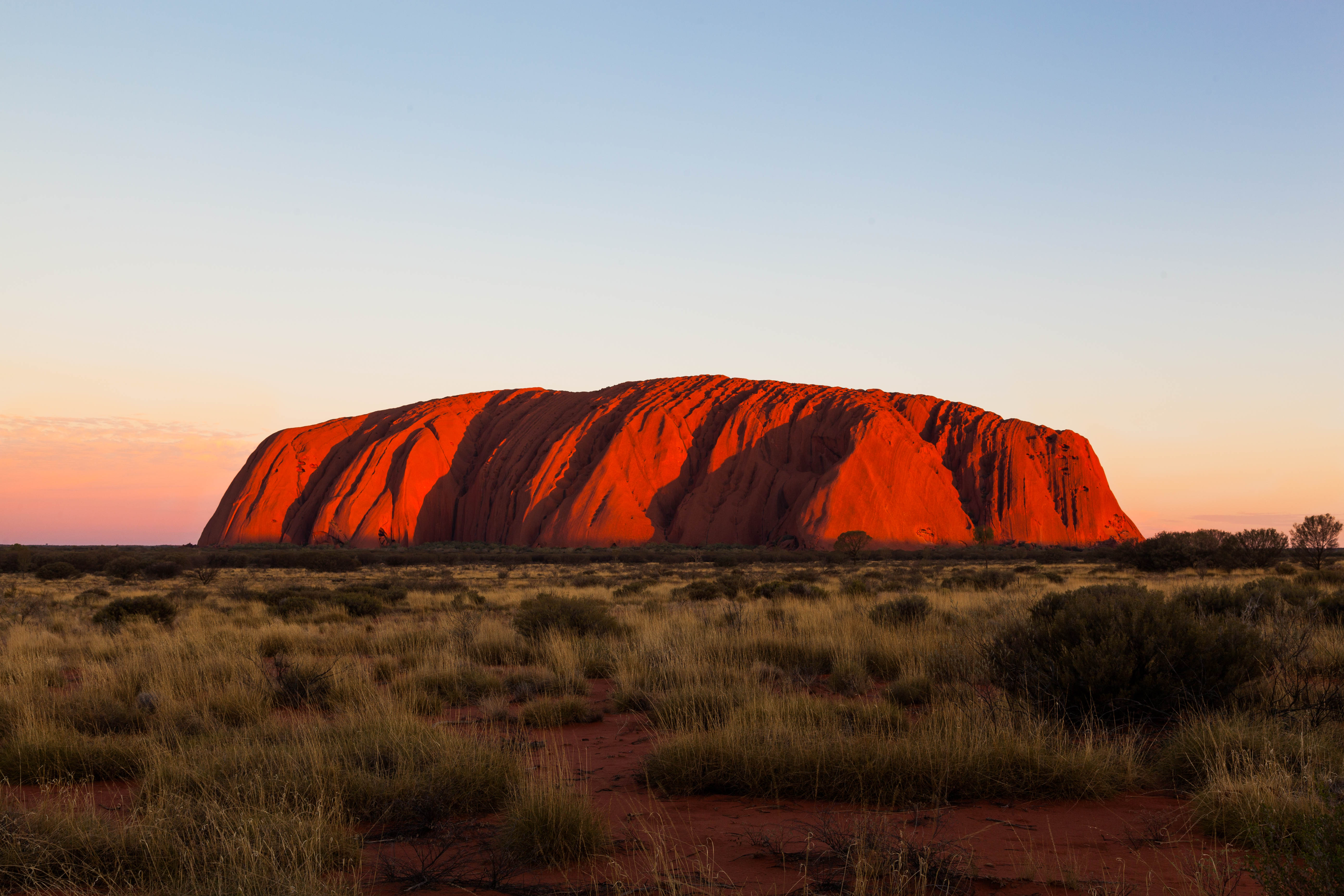 My first visit to Uluru. Seeing the colours change at sunset was a bucket list moment.